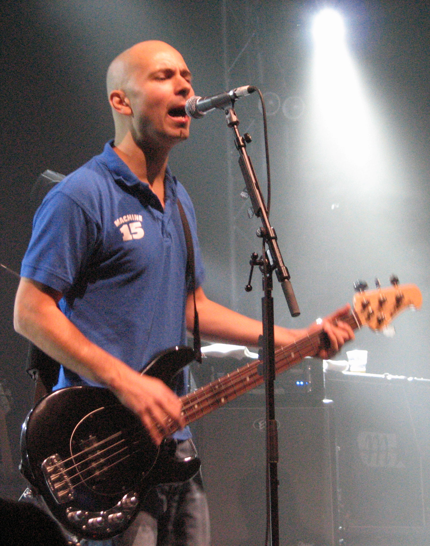 Nikola Sarcevic of Millencolin (live at Conventum, Örebro, Sweden.